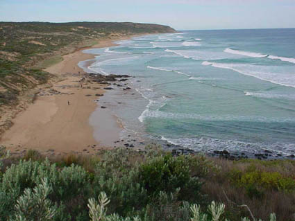 Waitpinga Beach, viewed from the Heysen Trail. The trail extends along the beach.